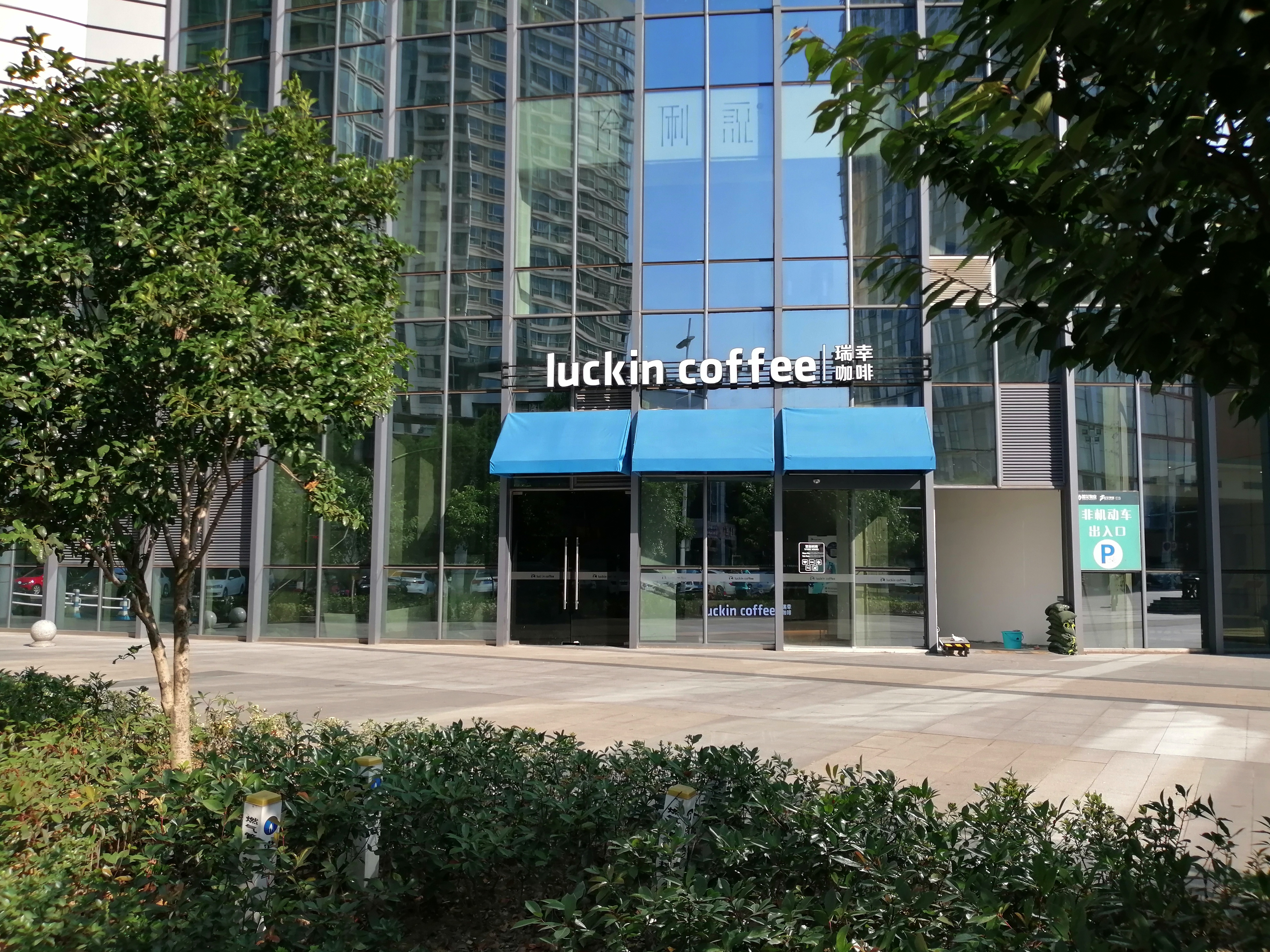 A Luckin Coffee store, located in Phoneix Square, Suzhou 中文（中国大陆）: 江苏省苏州市凤凰广场的一家瑞幸咖啡门店